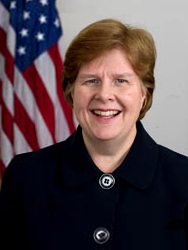 Official portrait of Christina Romer, Chair of the Council of Economic Advisors.